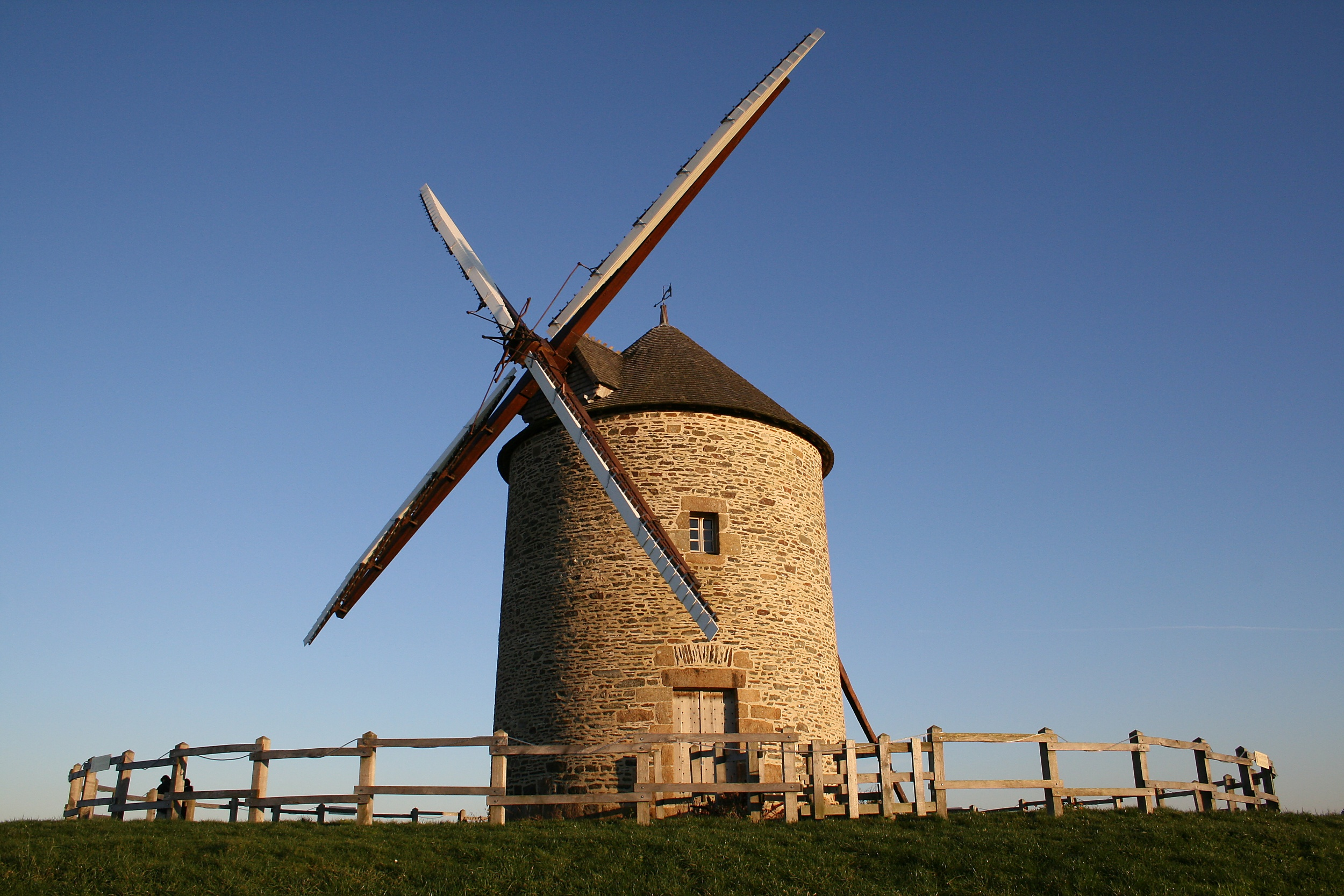 Windmill of Moidrey (Manche, Basse-Normandie, France), located on top of a hill which offers panoramic view over the Mont Saint-Michel bay.